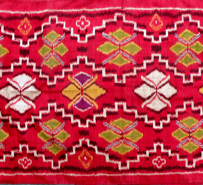 Edek from Singaraja, Bali.Silk ikat of the warp. Early 29th cent. The design is tampak bela ("poinsettia blosson"). Collection of Balique Arts of Indonesia.